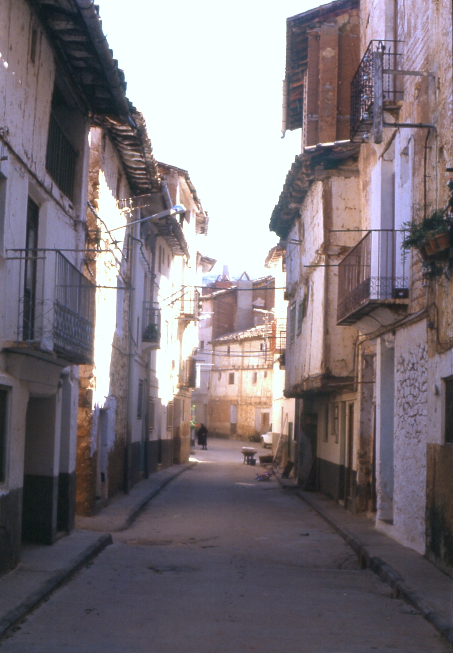 Old village street "Calle del Paso" in the village of Casas Bajas between Valencia and Teruel, Spain